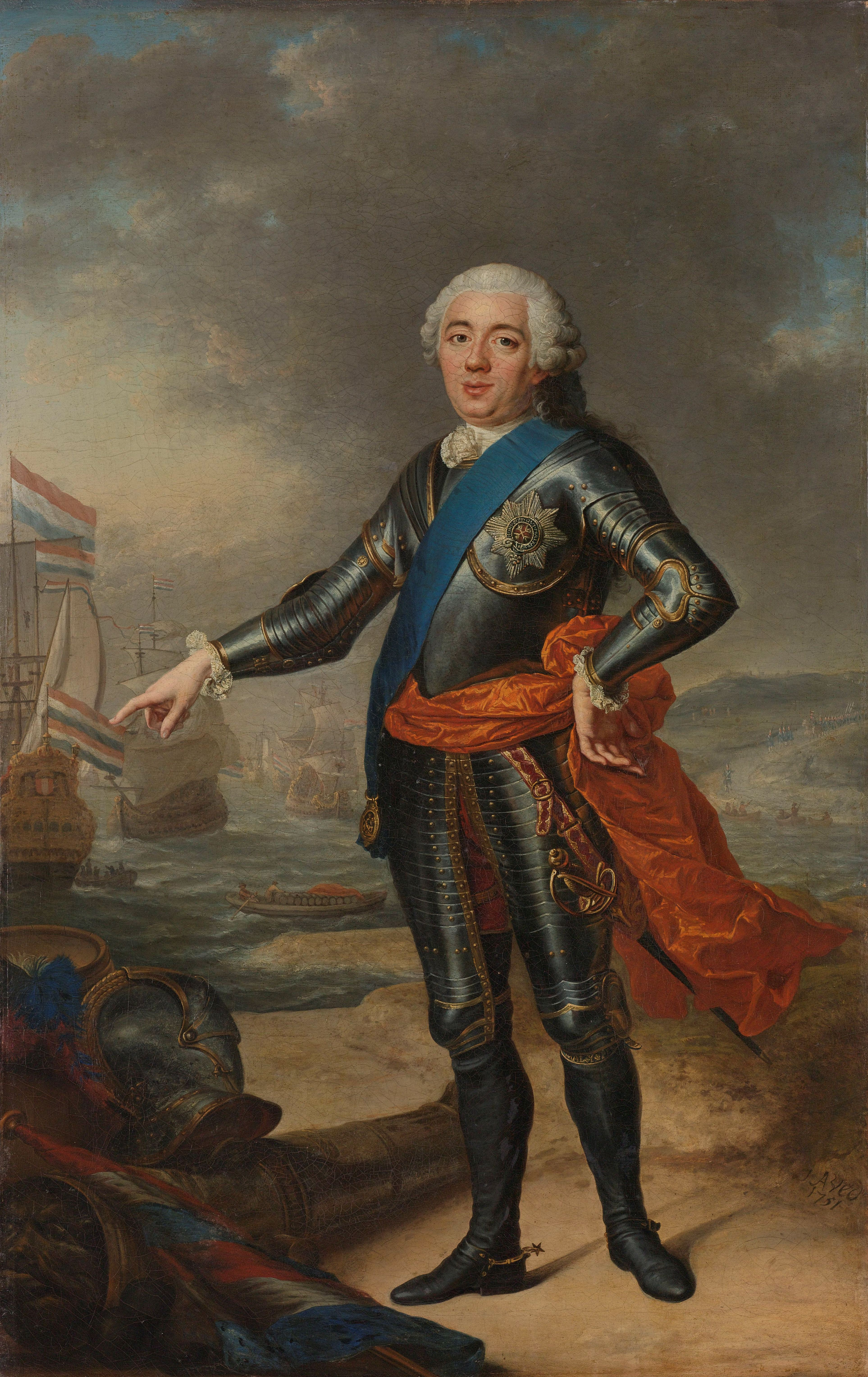 Portrait of William IV, Prince of Orange, standing in armor, at full length, in a coastal landscape. To the left military attributes including a canon and a helmet. In the background ships being supplied by rowing boats can be seen.